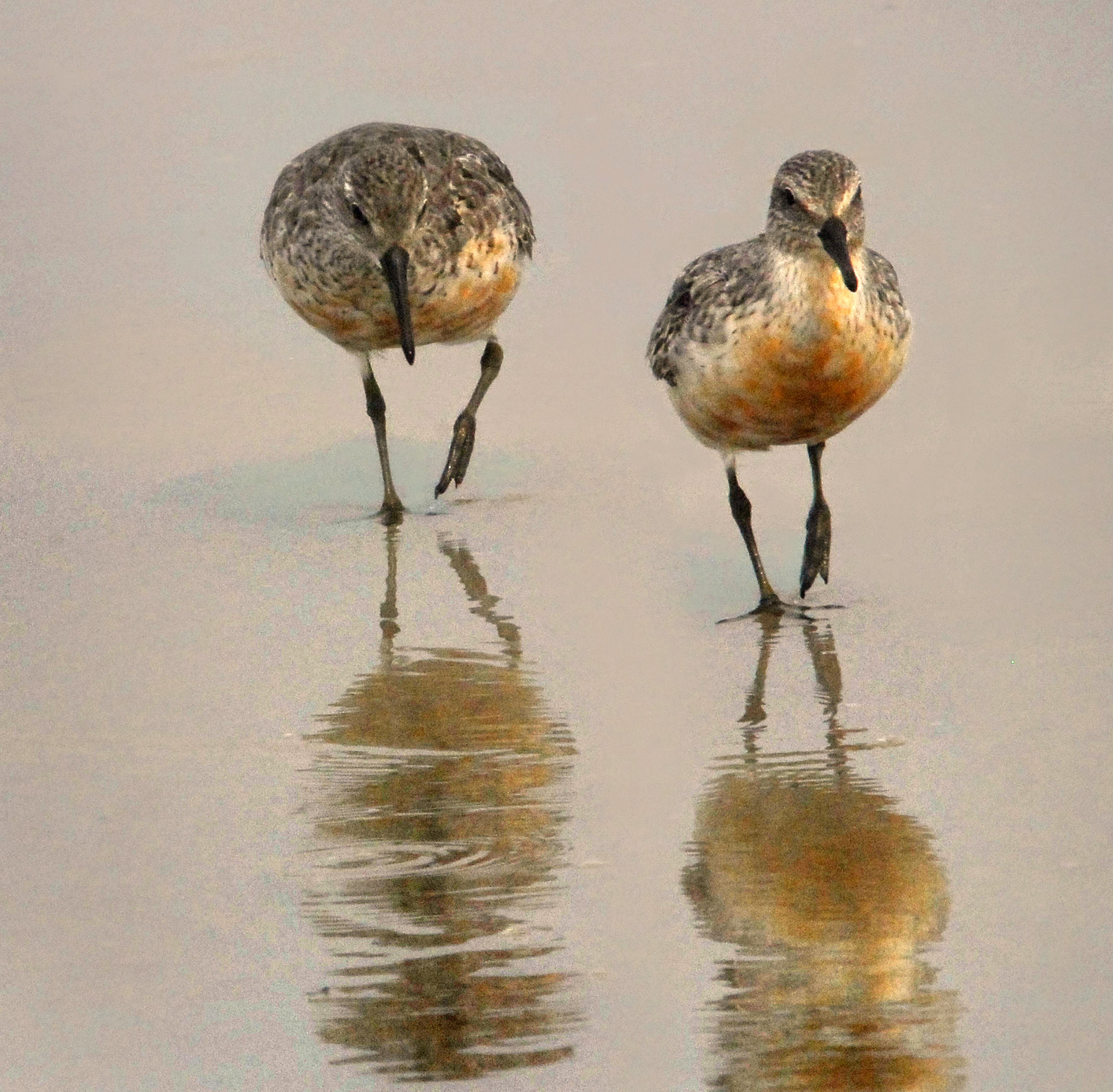 Taken on August 28, 2011 at Ponce Inlet, Smyrna Dunes Park, New Smyrna Beach, Volusia County, Florida. Nikon D200 Sigma 120-400mm Cropped and levels adjusted w/ Ps CS3